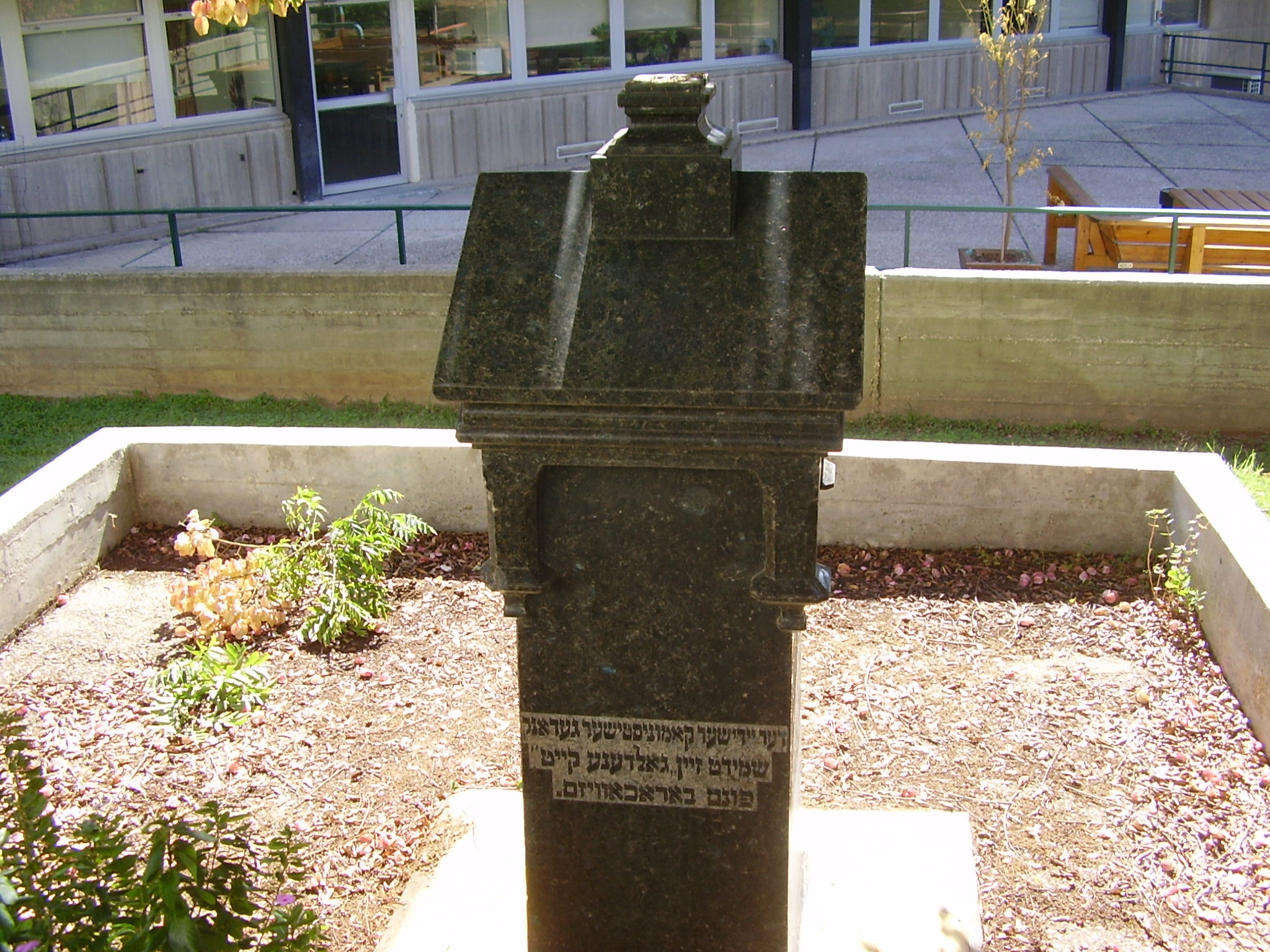 ber borochov tomb in ramat ef'al, israel